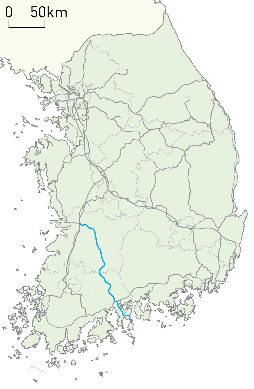 Korail Jeolla Line route map